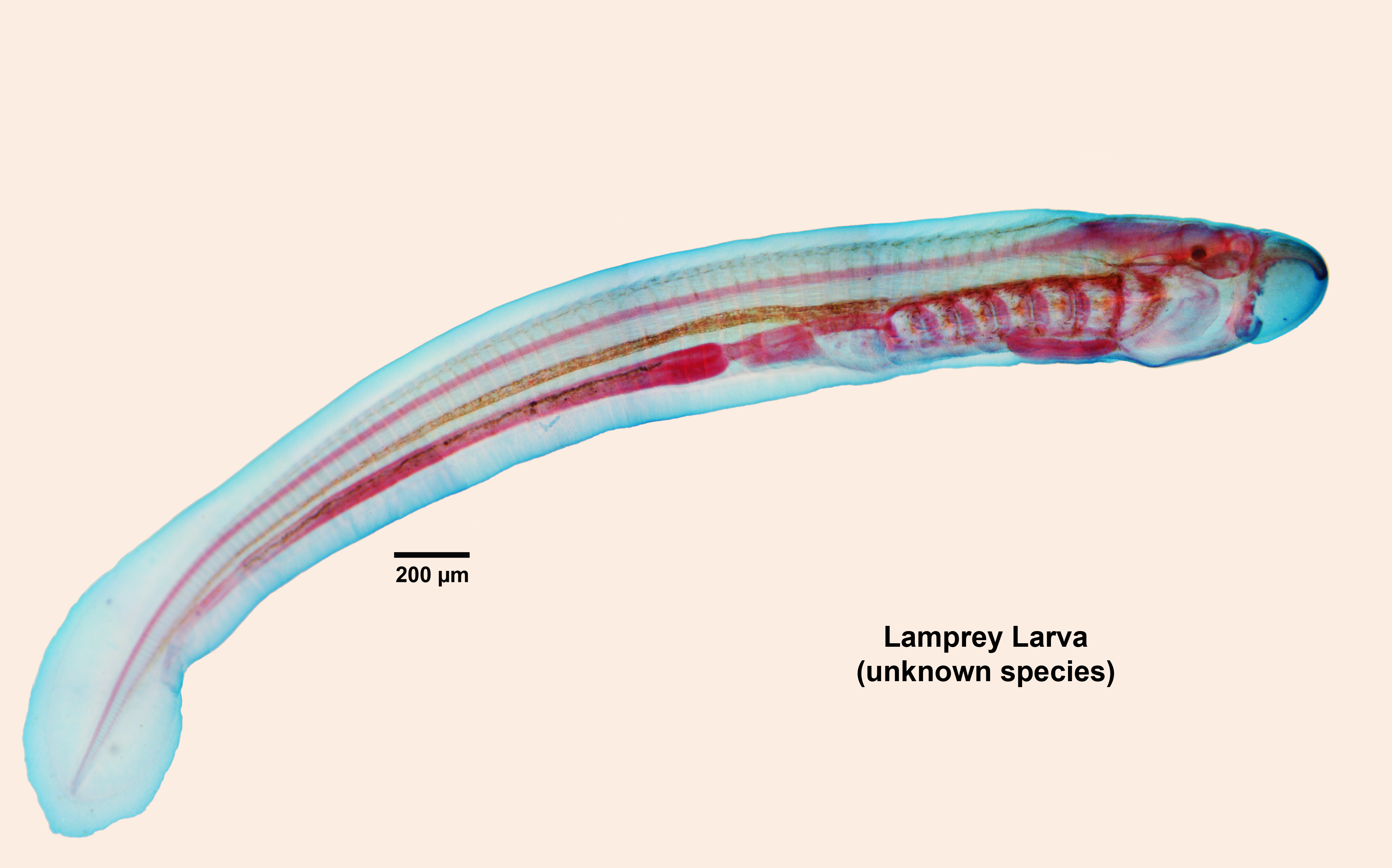 Microscopic whole mount, cleared & stained larval specimen from an unknown lamprey species.